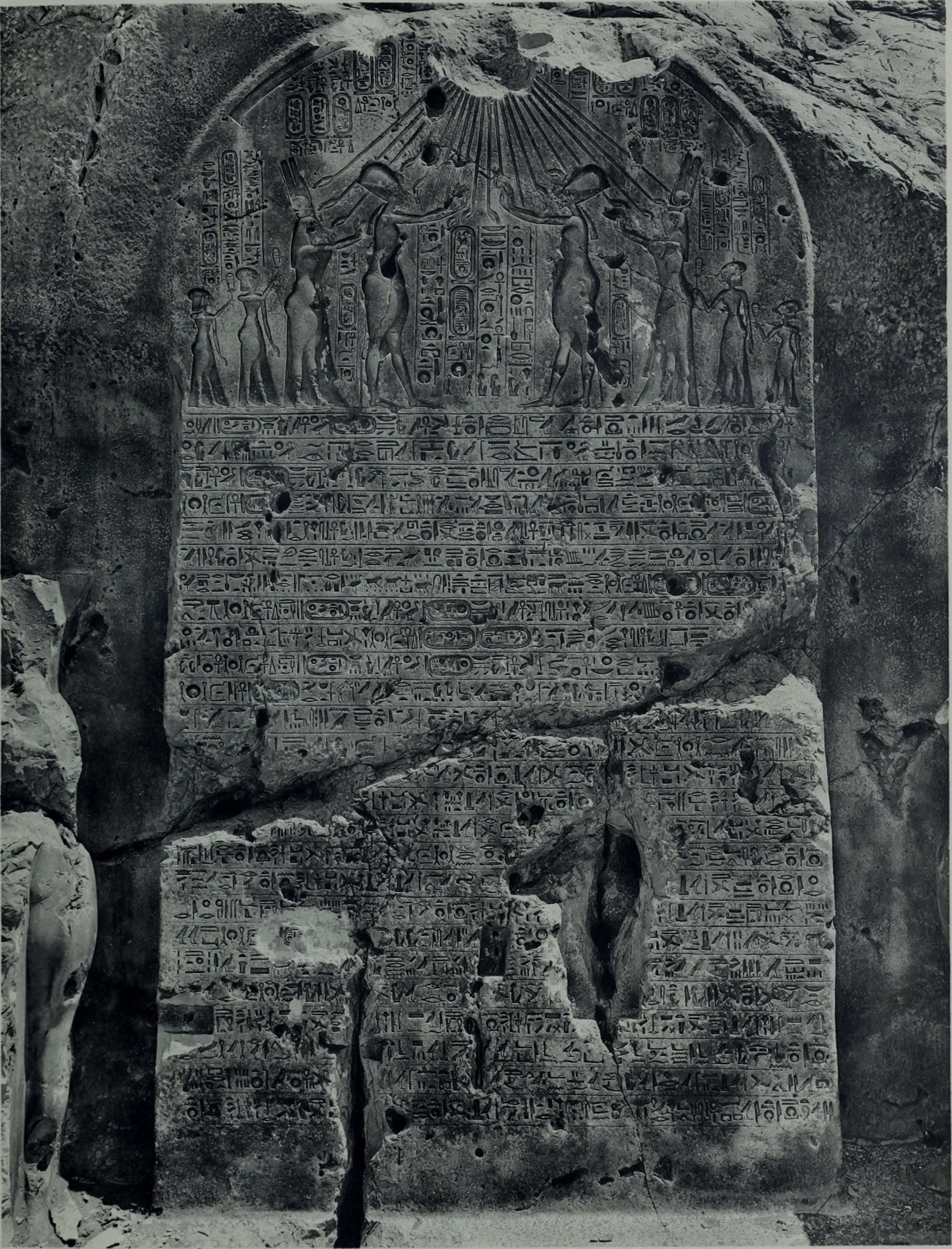 Title: Archaeological survey of Egypt memoir Year: 1893 (1890s) Authors: Egypt Exploration Society Subjects: Publisher: London Text Appearing Before Image: CO u z EL AMARNA V STELA S PLATE XXXIX Text Appearing After Image: EL AMARNA V BOUNDARY STELAE PLATE XL